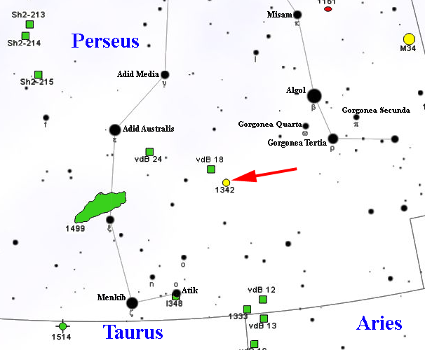 Map of NGC 1342